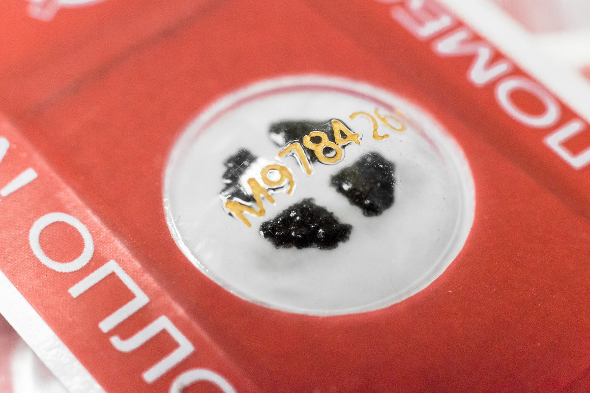 Зображення пломби